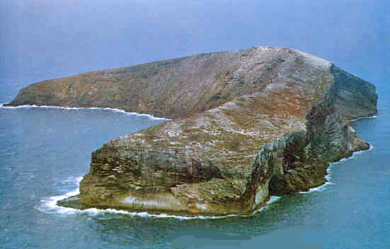 Aerial view of Kaula Island, Hawaiian Islands